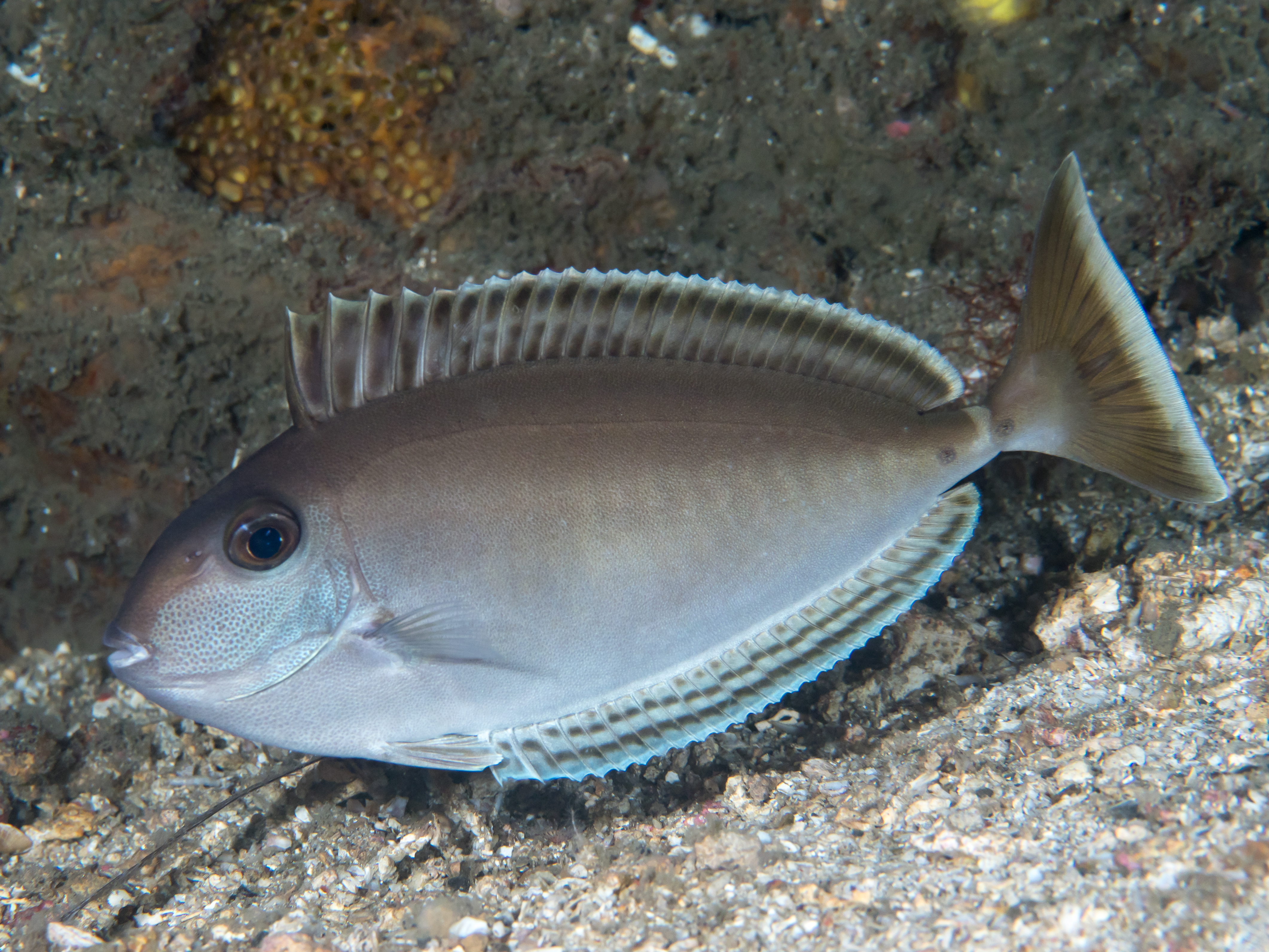 Lembeh, Indonesia - Elongate unicornfish in Night coloration (Naso lopezi)